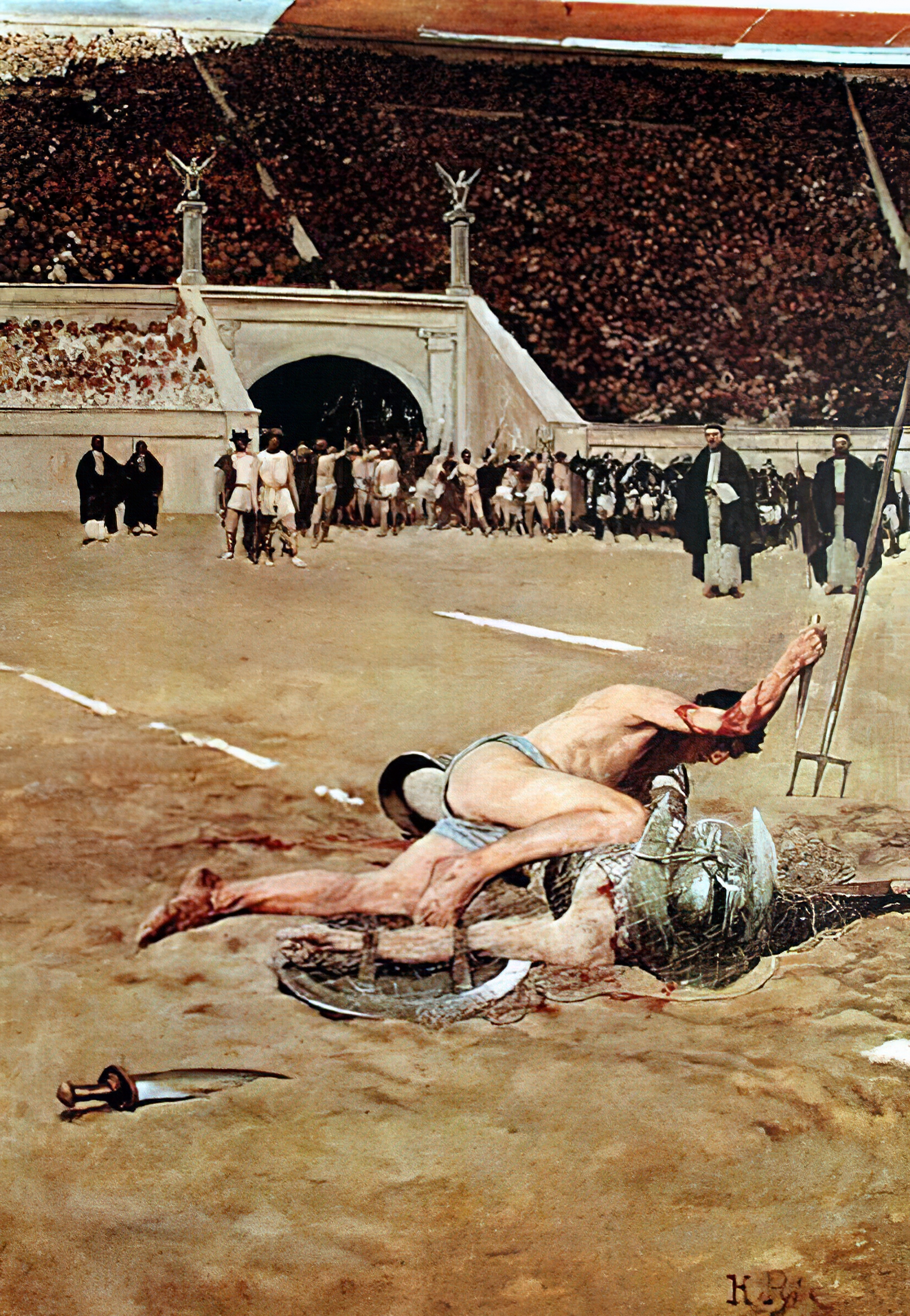 "Roman gladiators" by American illustrator Howard Pyle depicts a retiarius snaring his opponent with a weighted net in a Roman gladiatorial contest .